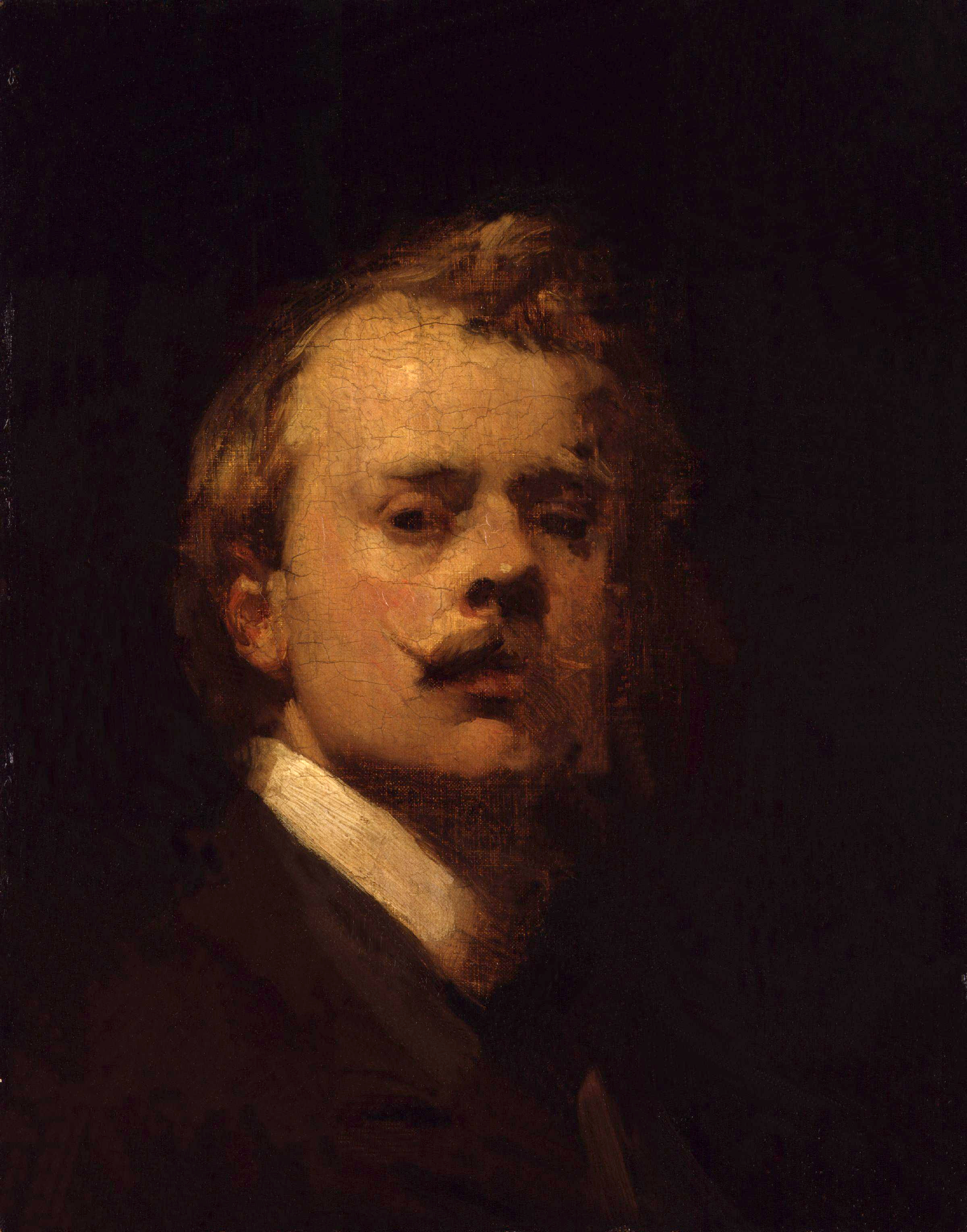 George Washington Lambert, by George Washington Lambert